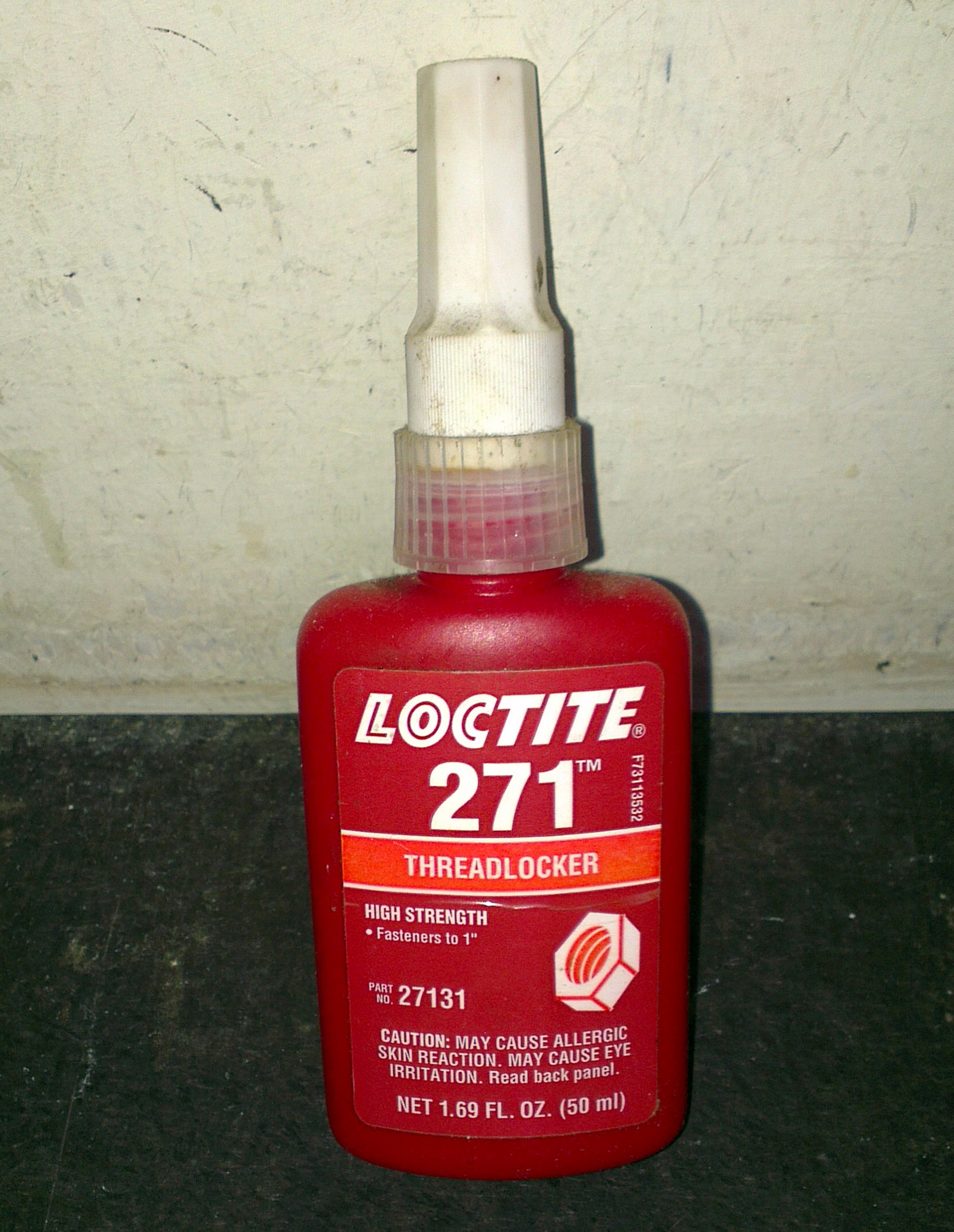 Thread-locking fluid